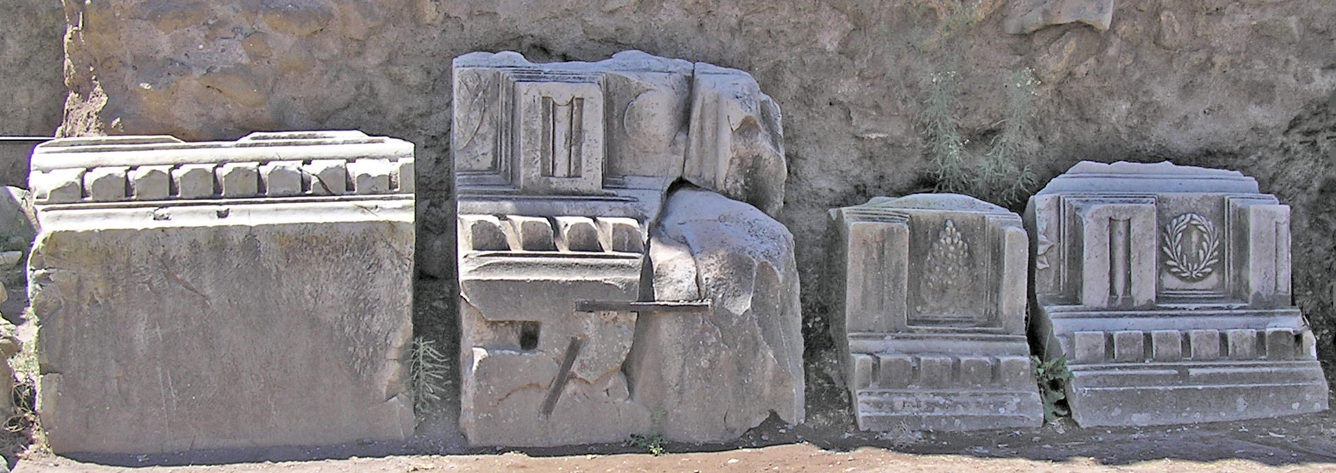 Italy, Rome, Roman Forum, temple of Divus Iulius (temple of divinised Julius Caesar), fragments of marble decoration.